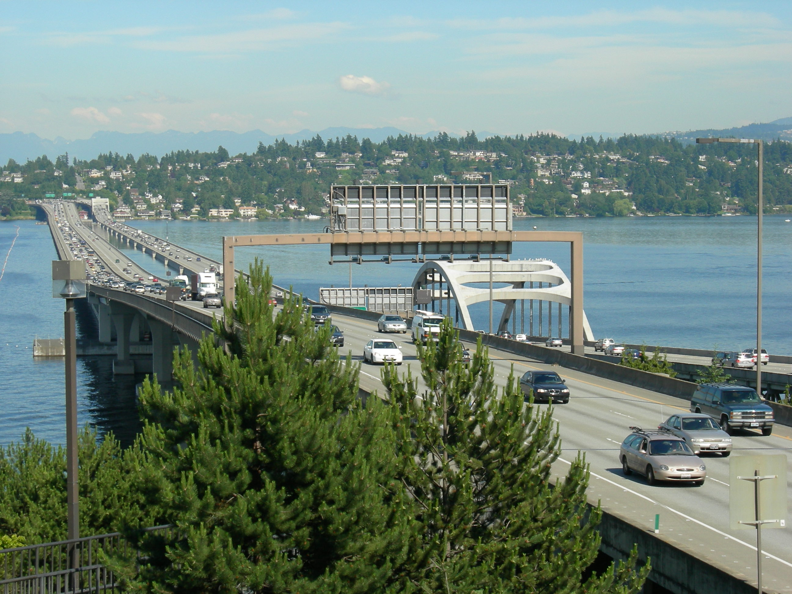 Interstate 90 floating bridge (officially Homer Hadley Bridge on the left (westbound motor vehicles and all pedestrians and bicycles) and Lacey V. Murrow Bridge on the right, eastbound motor vehicles), seen from Seattle, Washington; the bridge leads to Mercer Island, Washington. Lacey V. Murrow Bridge and East Portals of the Mount Baker Tunnels have city landmark status.